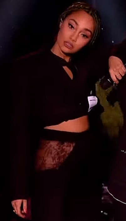 Nicki Minaj & Little Mix performing live at MTV EMAs 2018